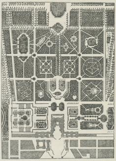 Garden plan - Gardens of Versailles